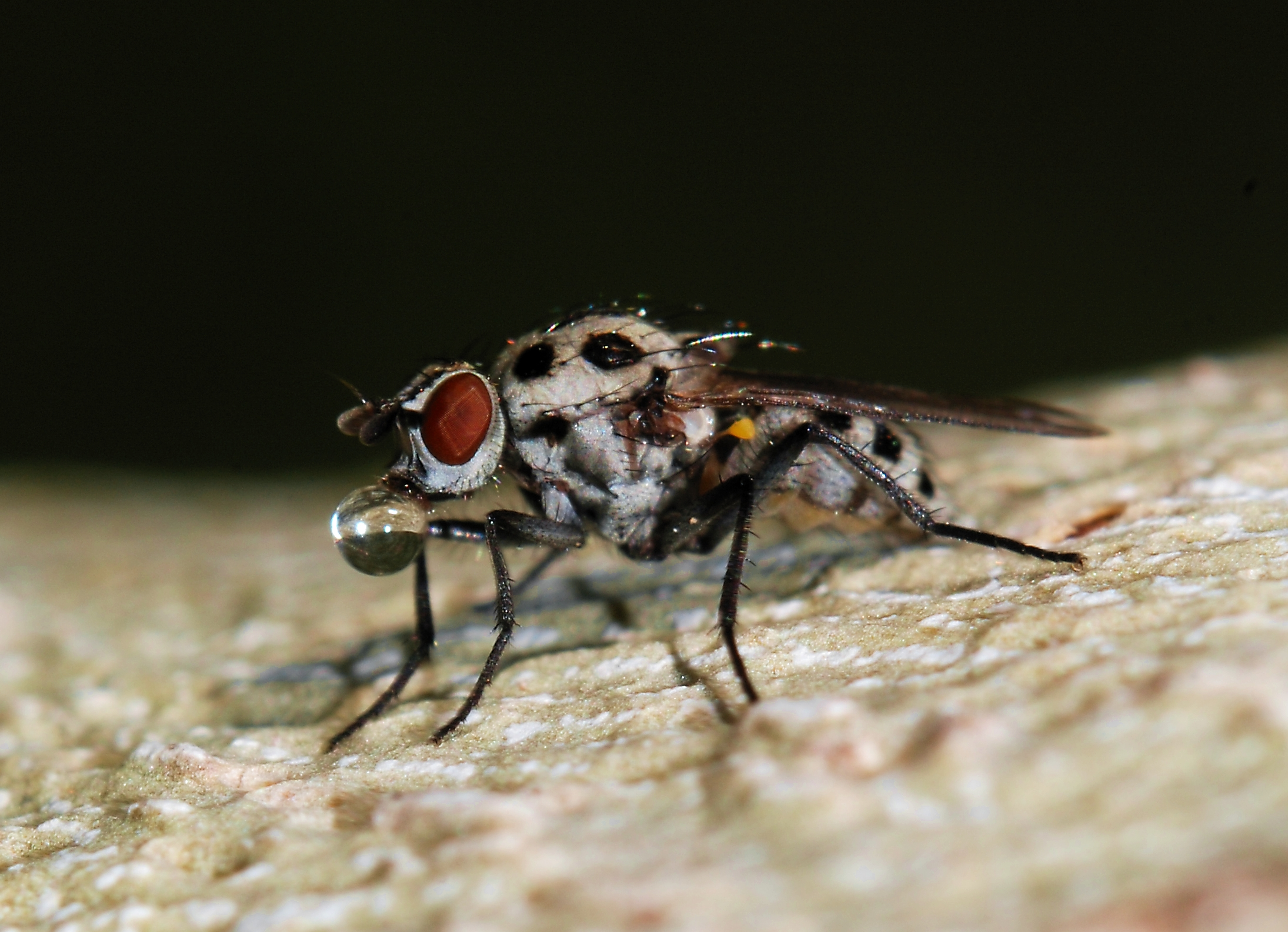 A fly with a bubble of regurgitated fluid in its tongue (Anthomyia sp.).